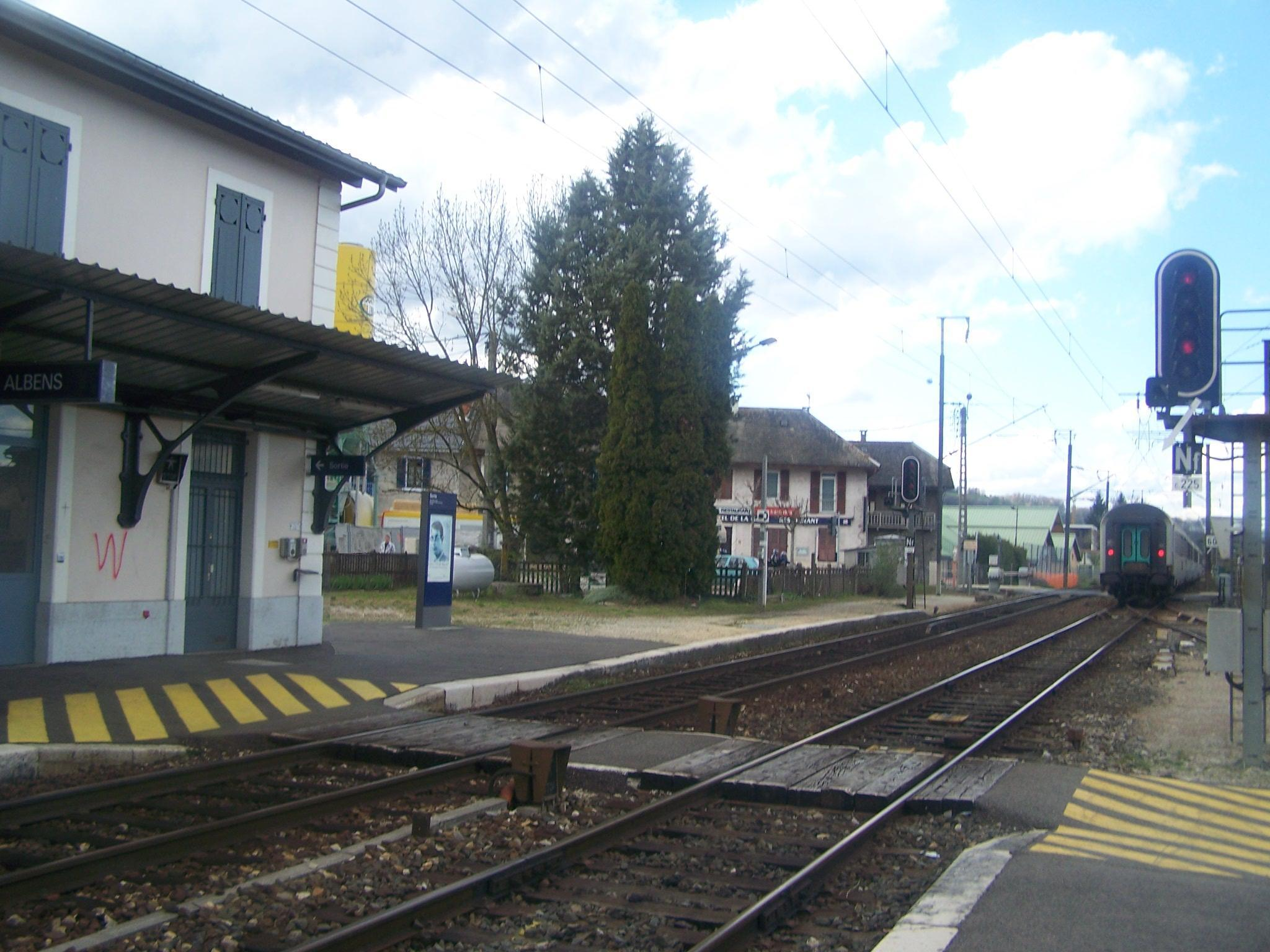 Tracks and platforms of the little station of Albens in Savoie, France (train moving to Annecy).